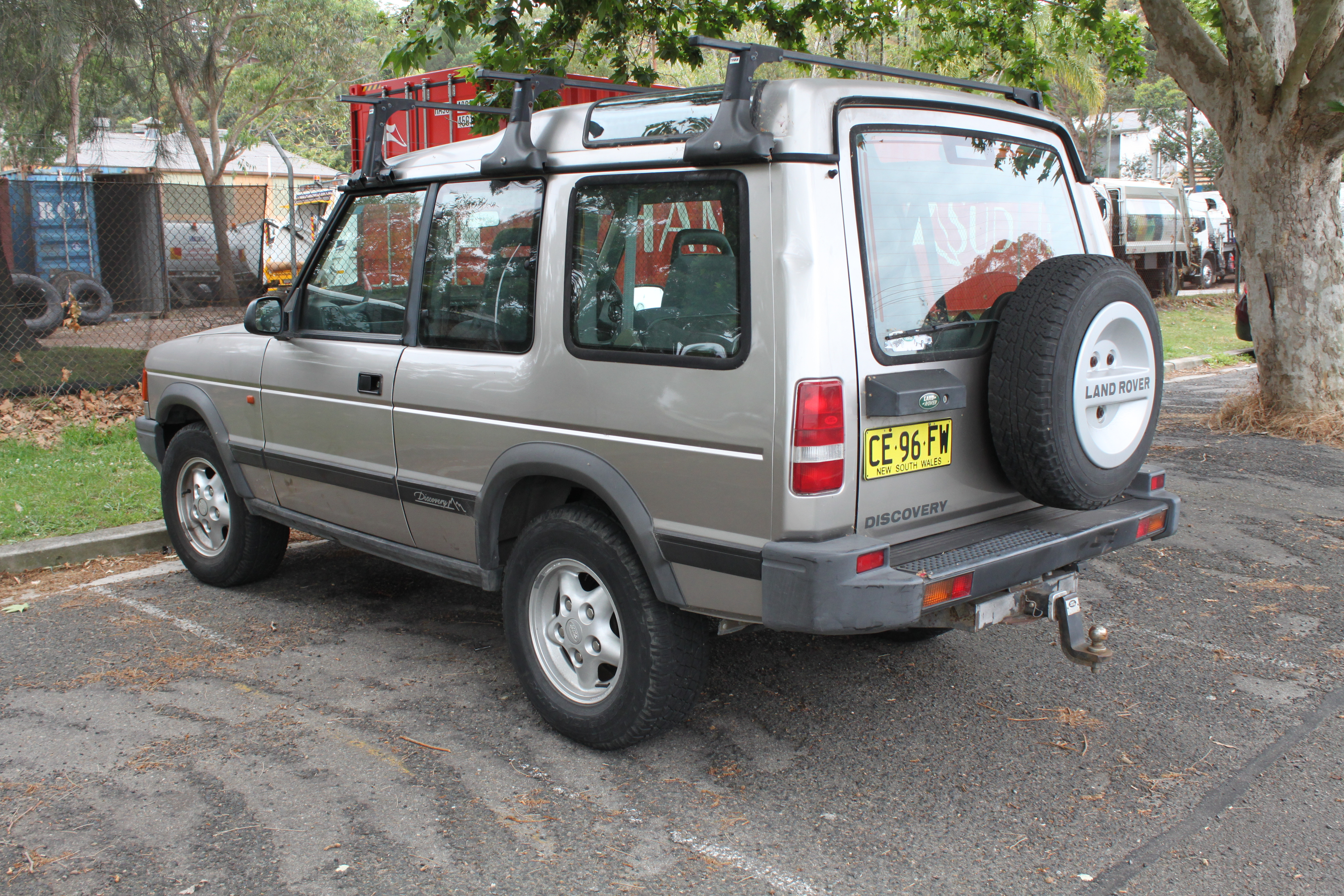 Land Rover Discovery